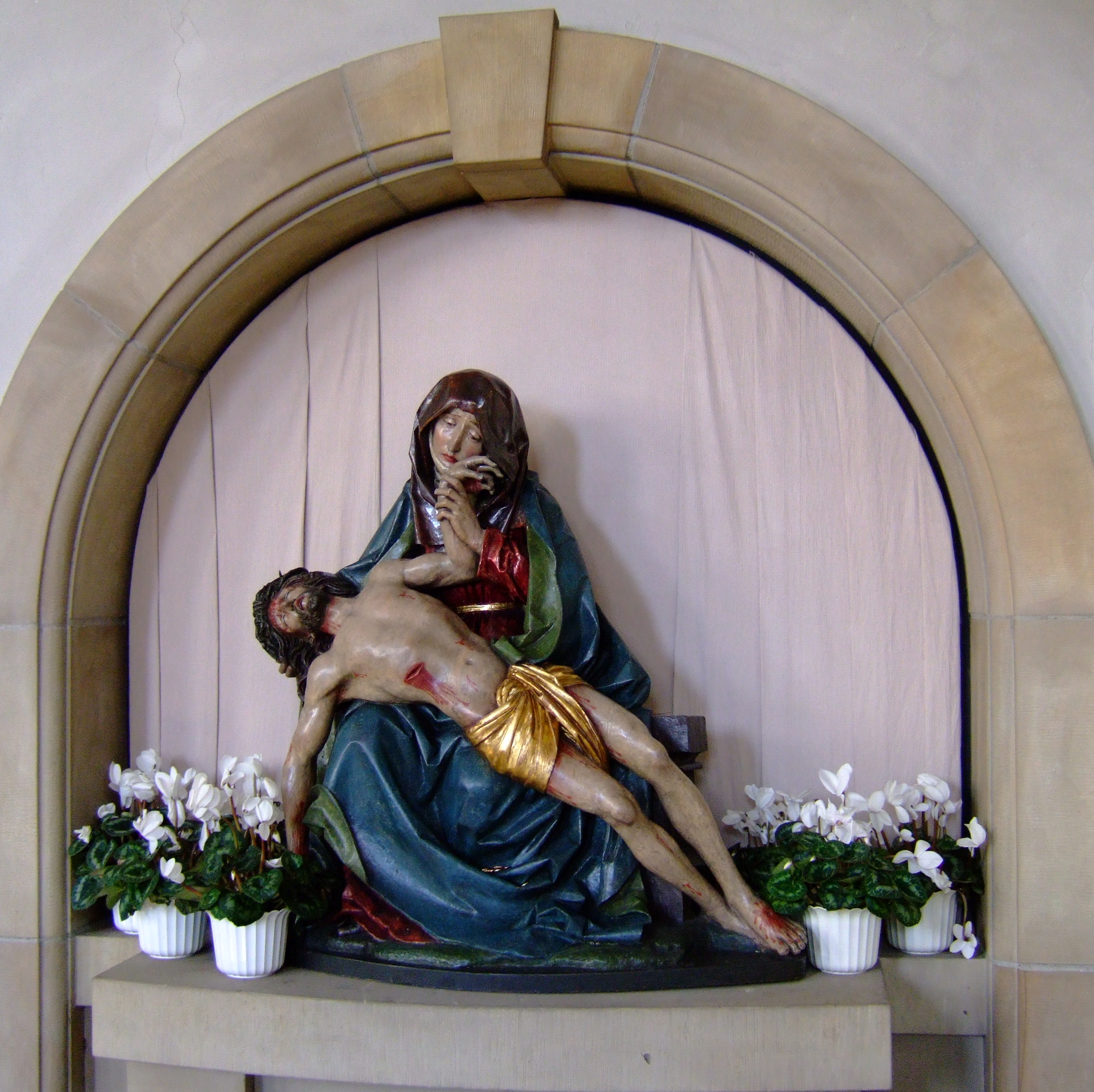 So called "Pieta" of the Church St. Dionysius of the City Neckarsulm